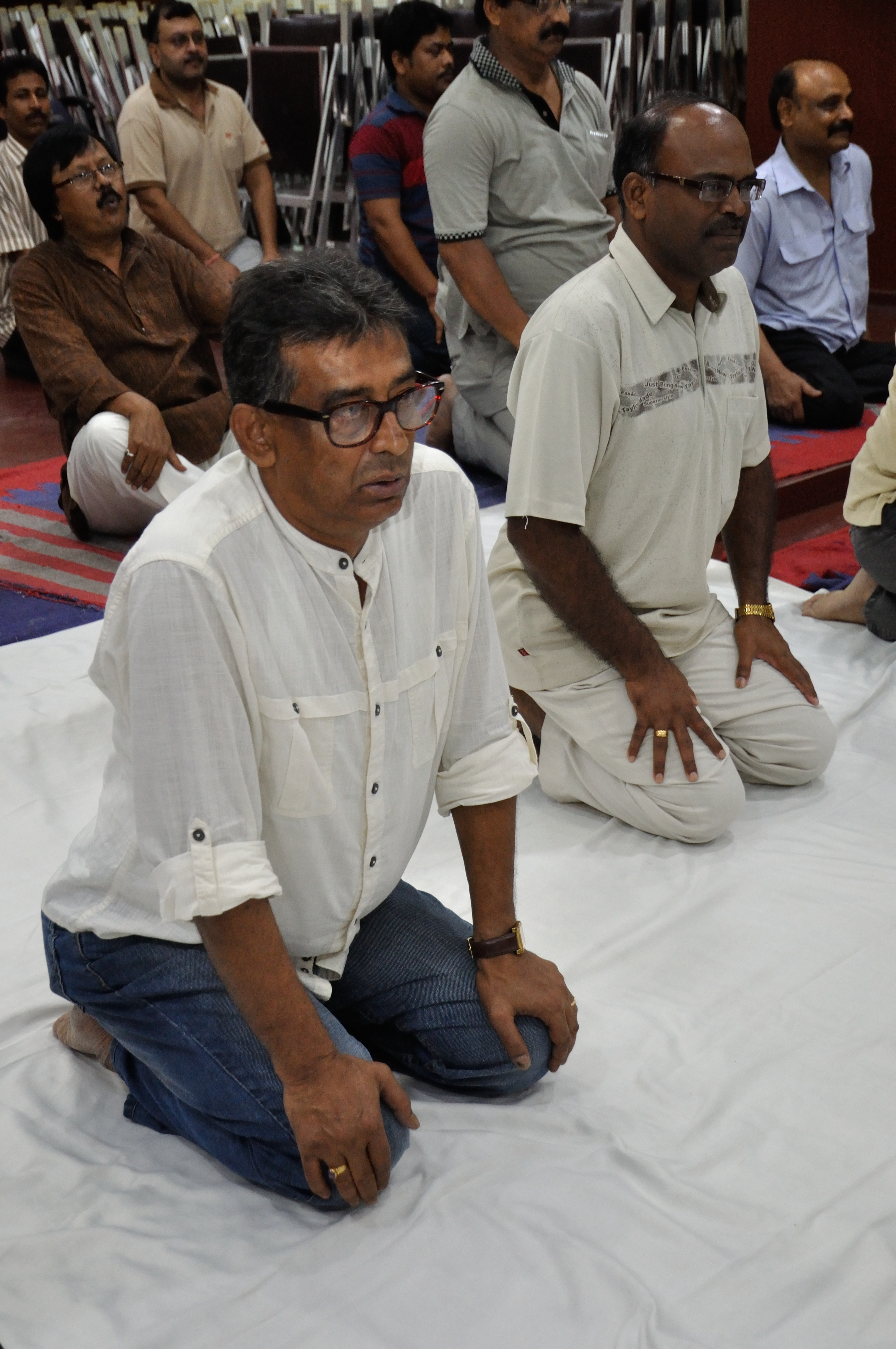 This photo was taken during the ‘International Day of Yoga’ was celebrated by the National Council of Science Museums (NCSM), Kolkata, under the Ministry of Culture, Govt. of India. About fifty persons took part at the Yoga programme.